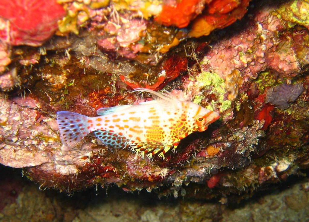 A Coral Hawkfish (Cirrhitichthys falco). Steve's Bommie, Ribbon Reefs, Great Barrier Reef220018075